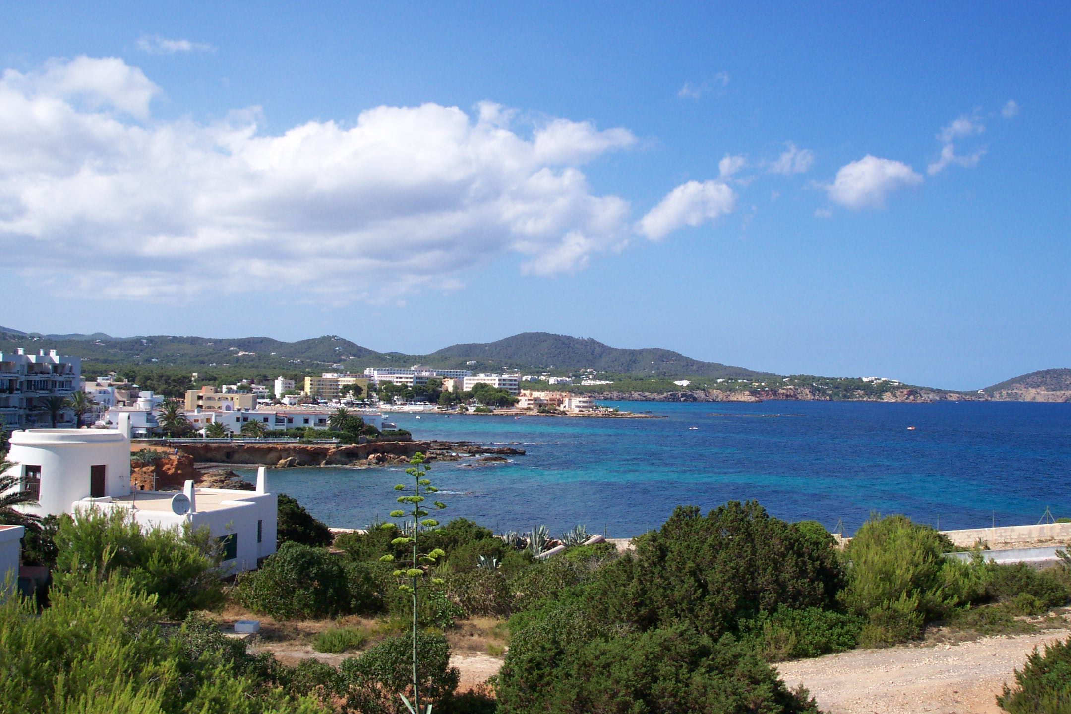 A view taken from the most northerly point of the resort, facing Southward, with the resort center in view.